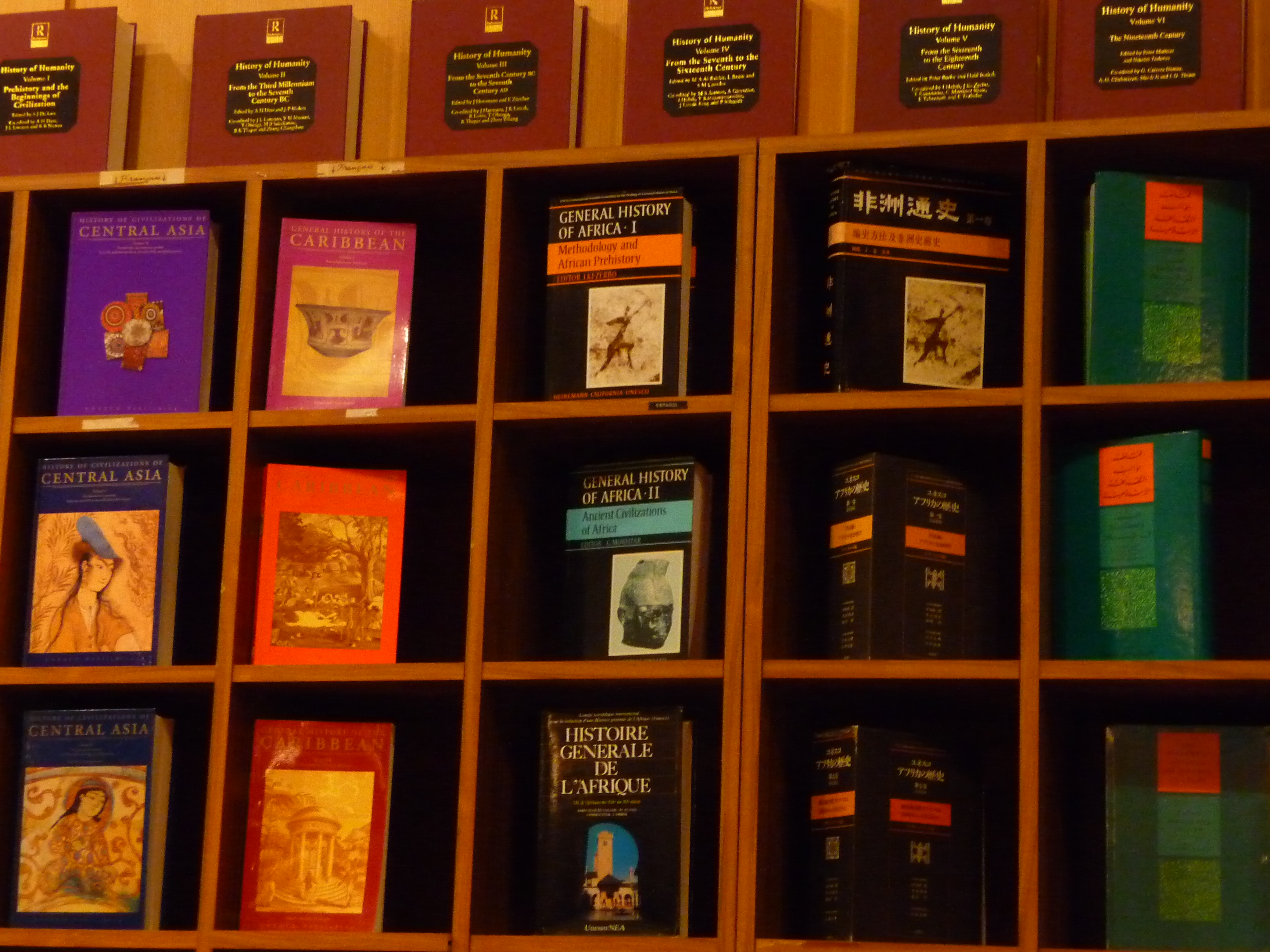 Les différents volumes de la collection